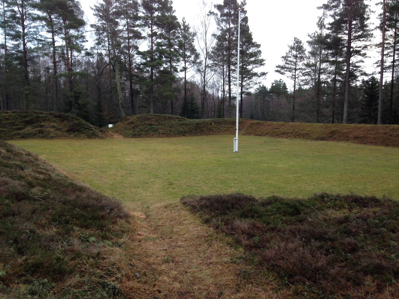 Old fortification east of Hyltebruk, Sweden.